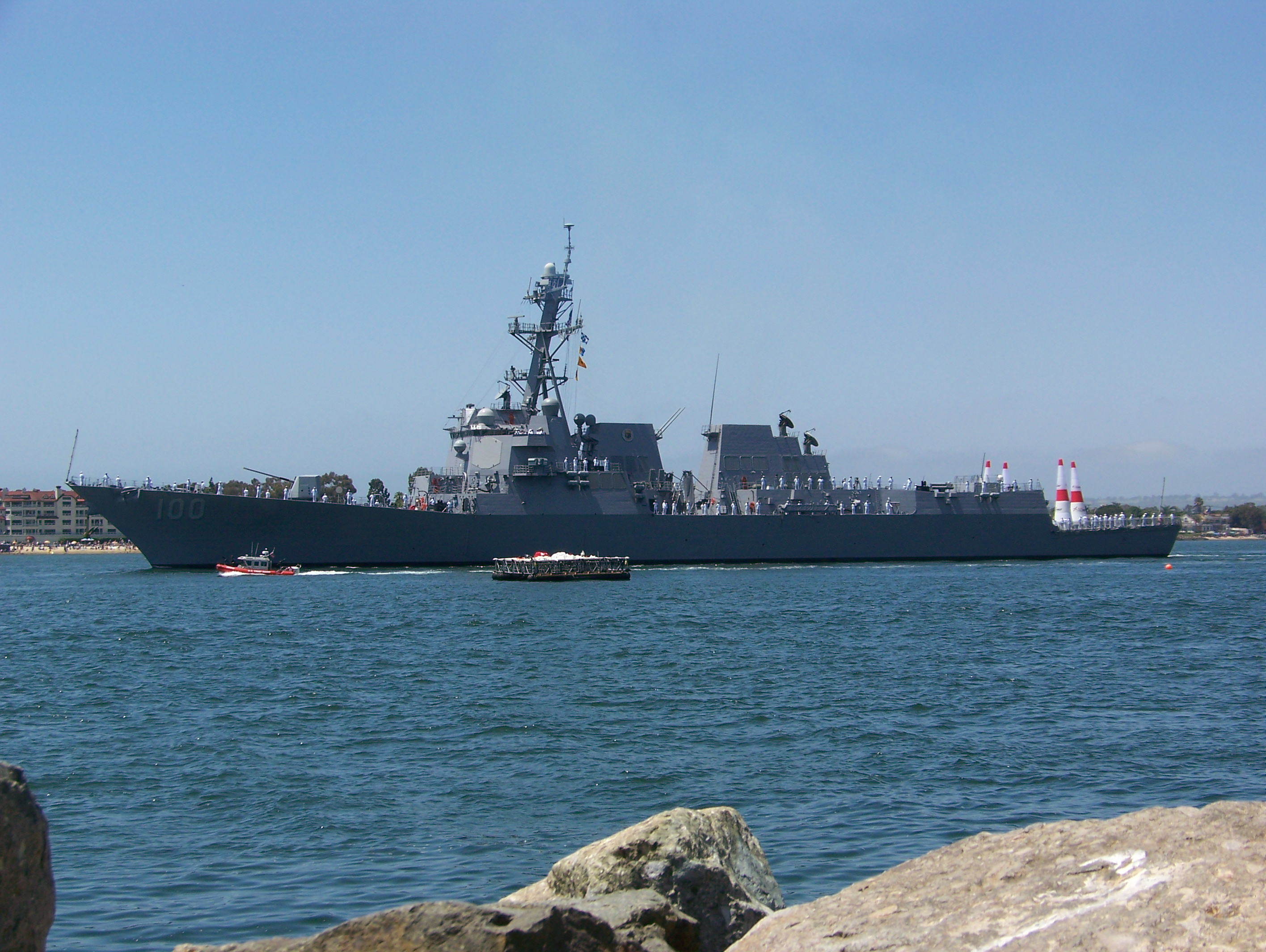 The USS Kidd (DDG-100) in San Diego Bay in May 2008 prior to the Red Bull Air Races.